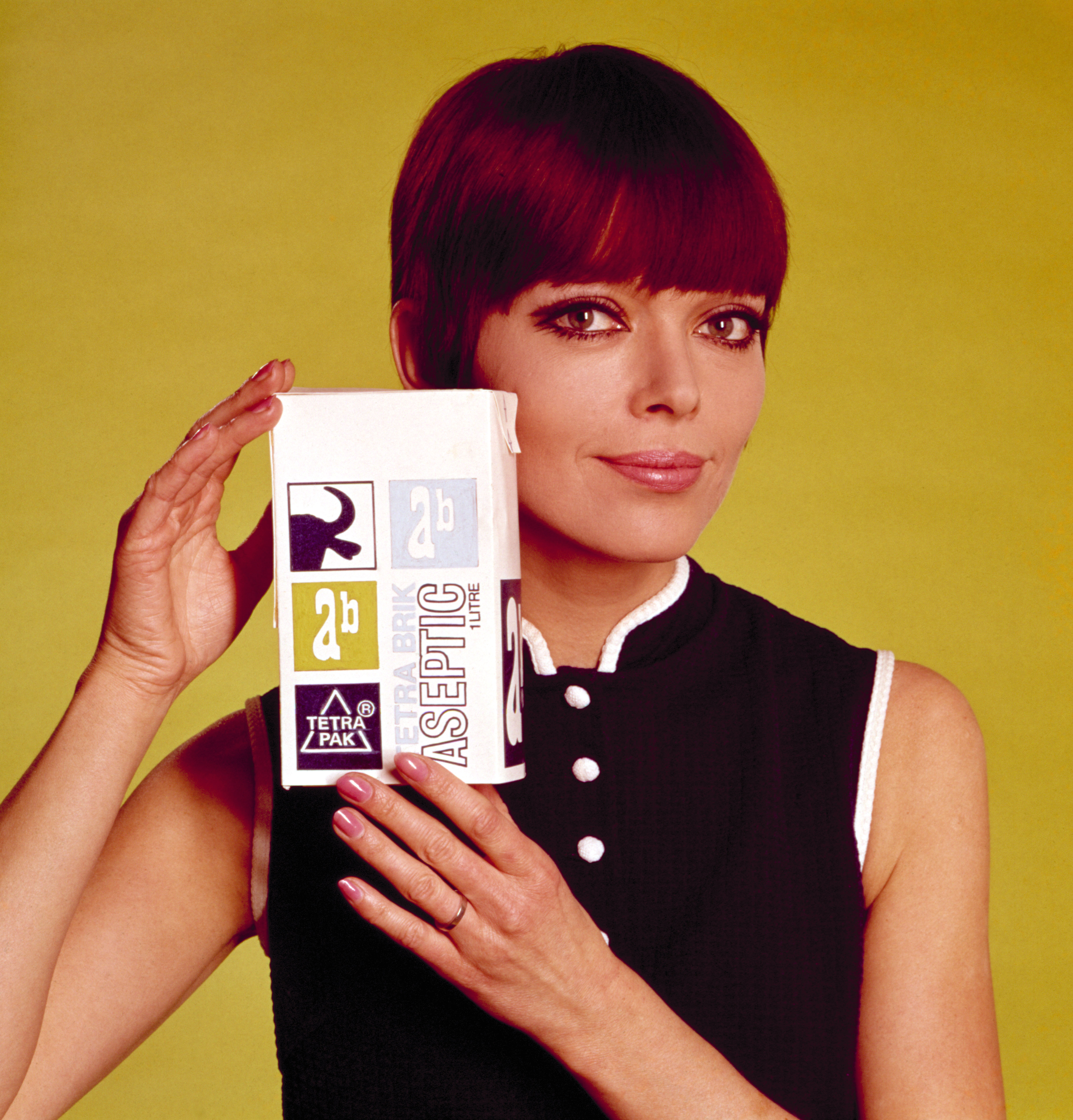 Tetra Pak Tetra Brik with lady 1960s